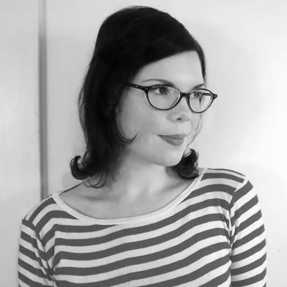 Author photo of Emily Winfield Martin from her picture book The Wonderful Things You will Be